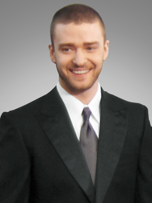 Justin Timberlake arriving at the 2007 Golden Globes. Cropped from flickr photo by Joe ShlabotnikJustin Timberlake arriving at the 2007 Golden Globes.